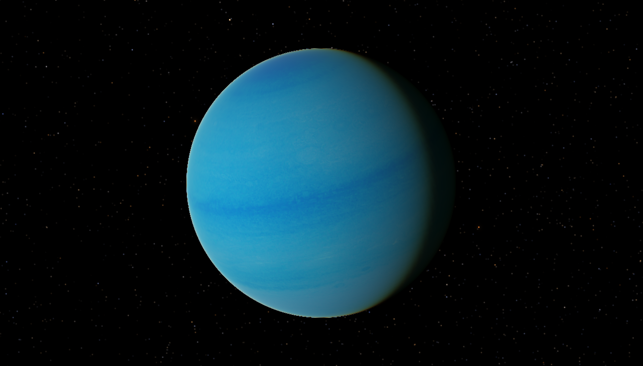 Gliese 581 b, "hot-Neptune" extrasolar planet.